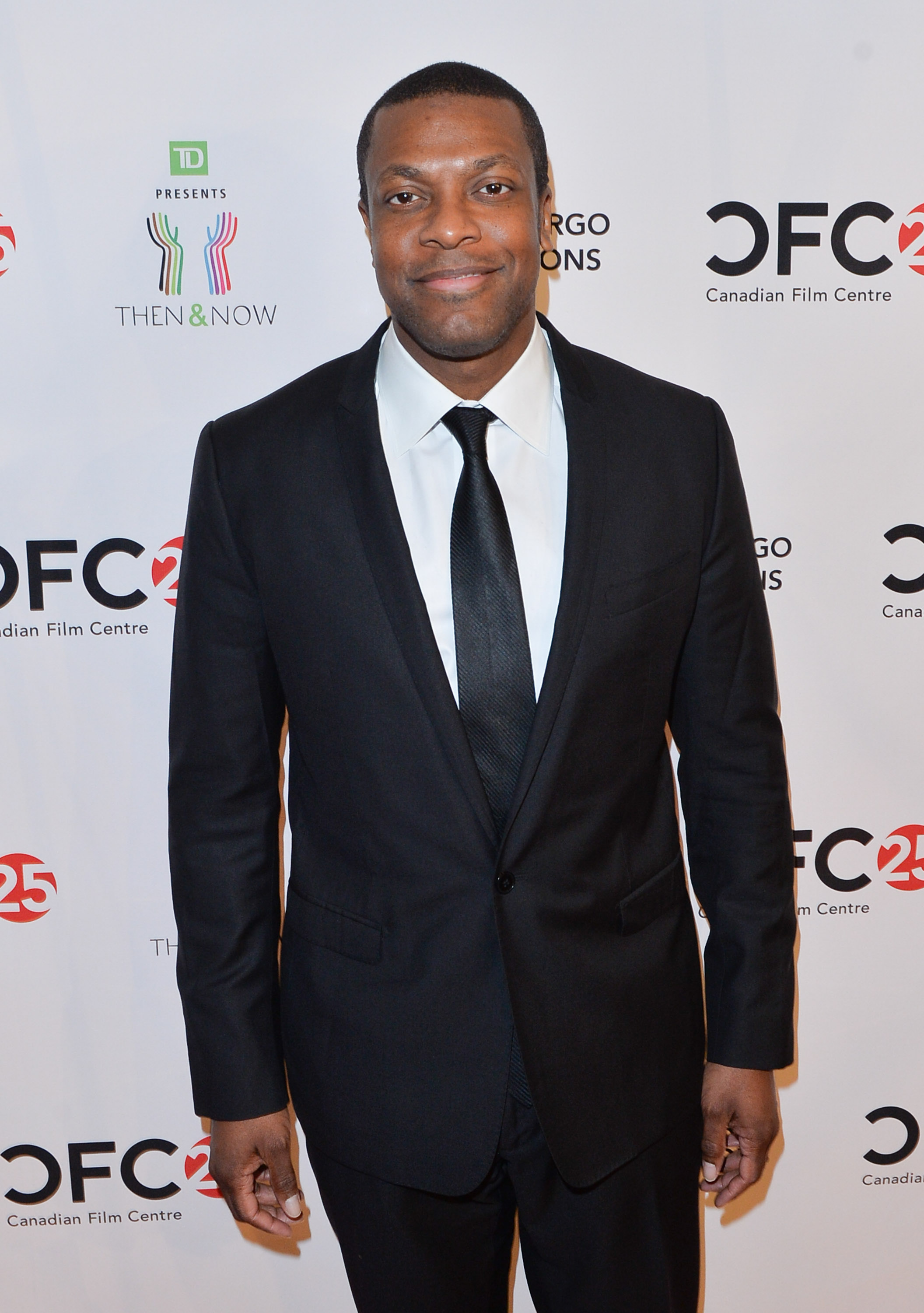 Chris Tucker. In celebration of Black History Month, CFC (Canadian Film Centre), Clement Virgo Productions and TD are pleased to present a special evening honouring acclaimed actor/comedian Chris Tucker (Silver Linings Playbook, Rush Hour 1, 2 & 3, Jackie Brown, Fifth Element.) Hosted by CBC's Garvia Bailey, An Evening Honouring Chris Tucker celebrated Tucker's distinct and hugely popular body of work through conversation and clips, and allowed Toronto audiences to participate in a Q&A about his inspirations, entering the film business, the choices of roles, and the challenges he has faced along the way.